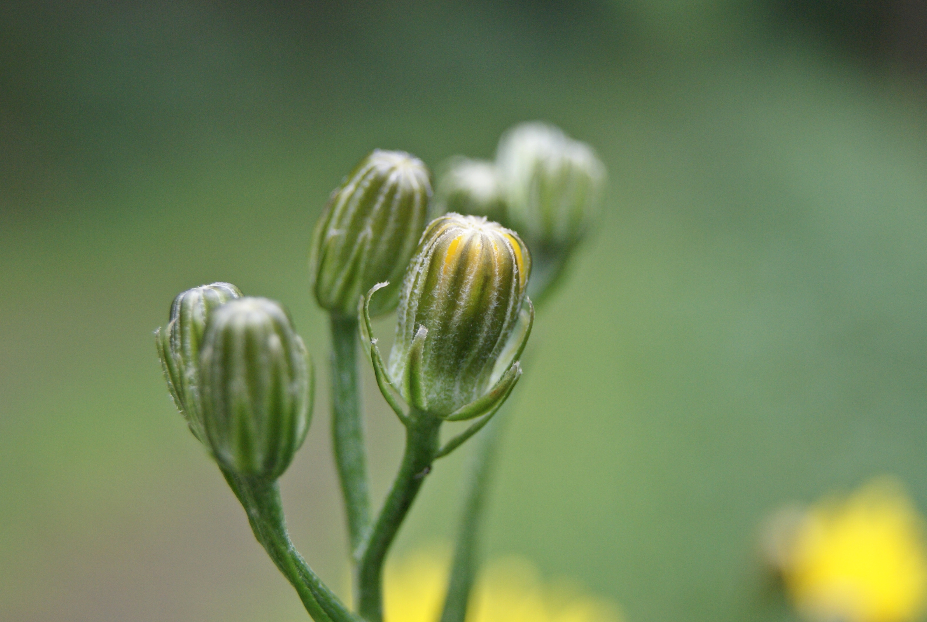 Crepis biennis, Germany.